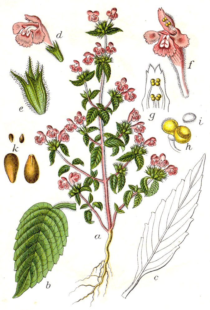 Galeopsis ladanum L. subsp. ladanum, syn. Galeopsis latifolia Hoffm. Original Caption Breitblättrige Kornwut, Galeopsis latifolia